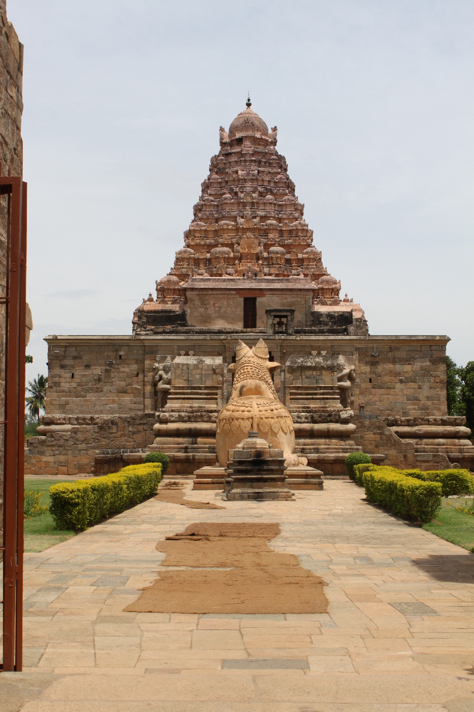 Brihadisvara Temple